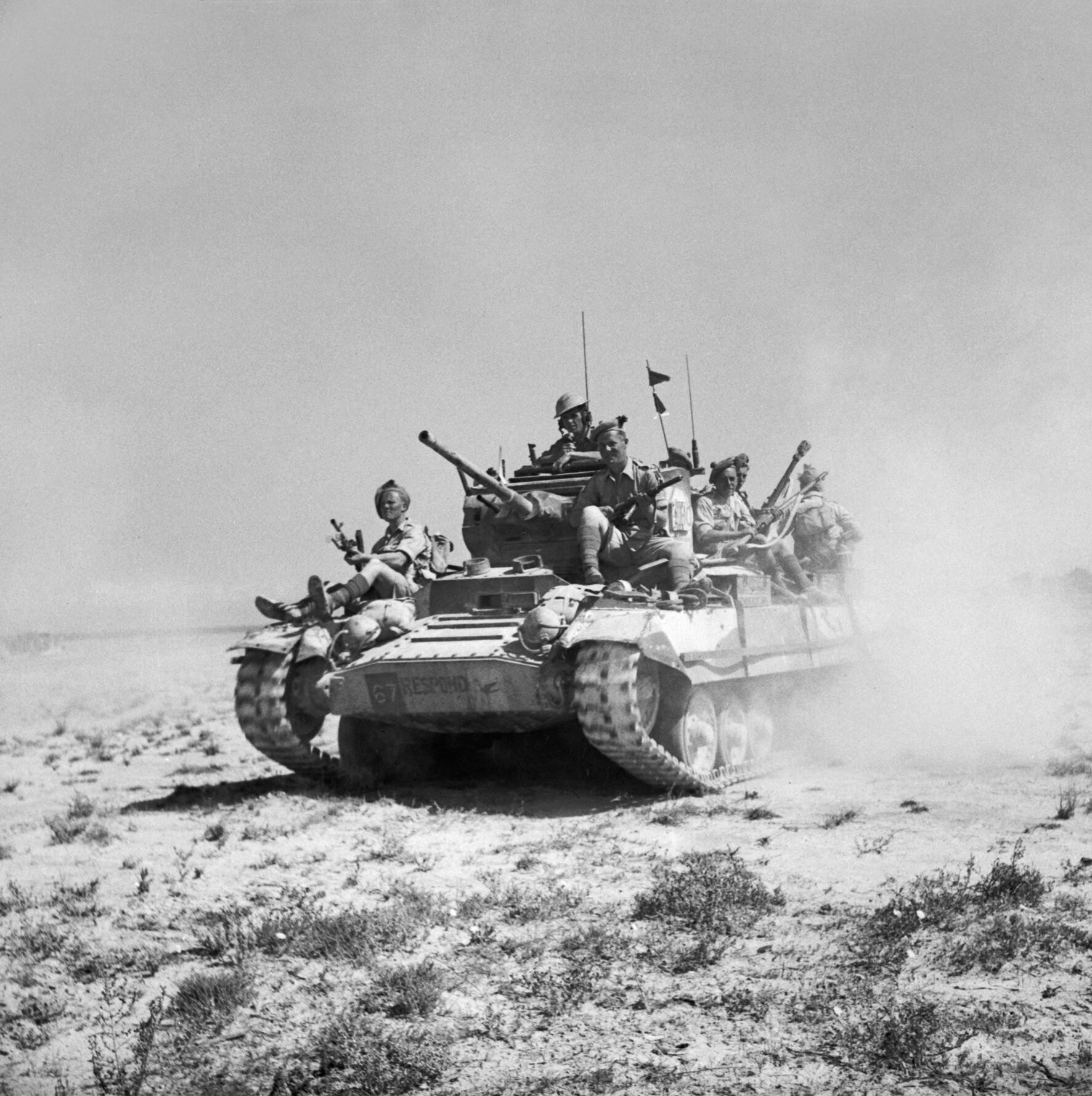 The British Army in Tunisia 1943 Valentine tank carrying infantry of the Black Watch, March 1943.